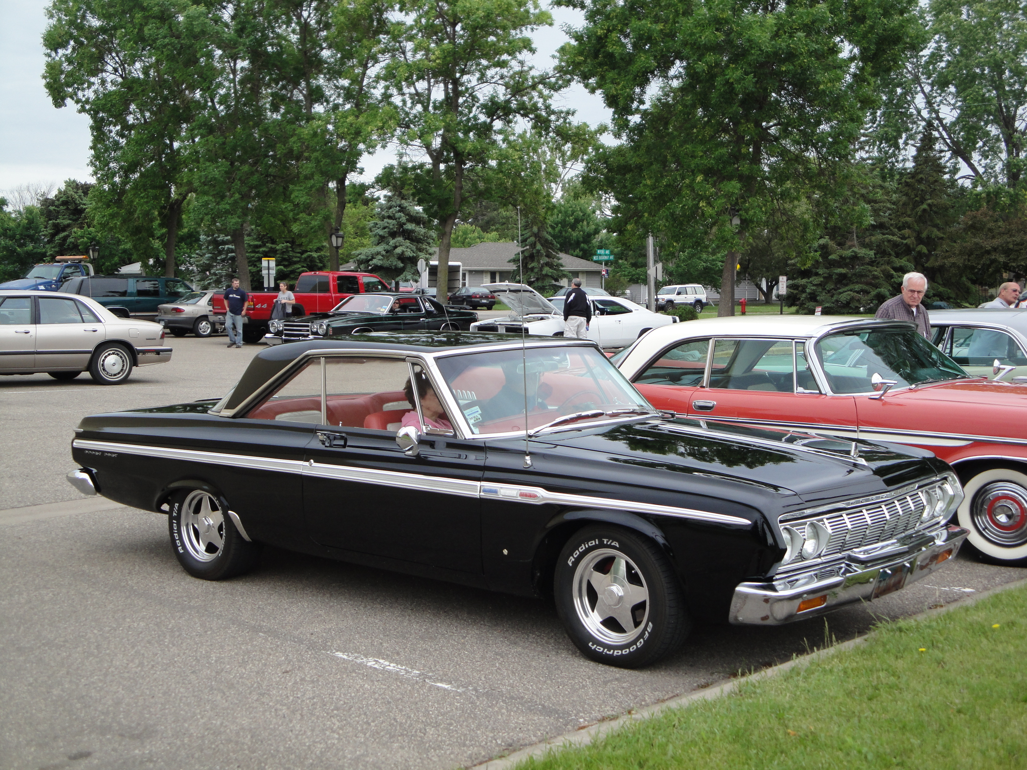 W.P.C. Restorers Club 10,000 Lakes Region Car Show June 12, 2011 Wagner's Drive in